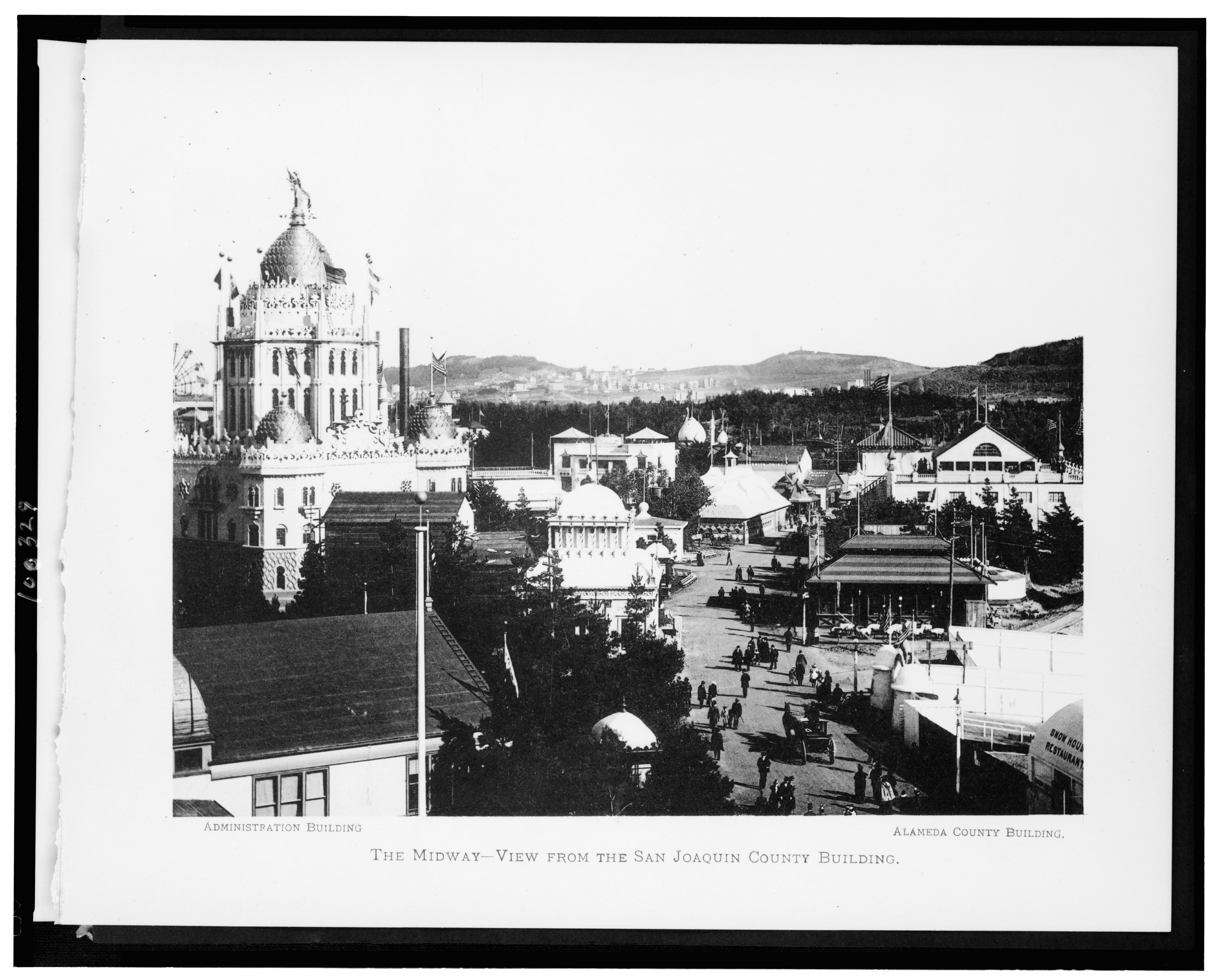 Title: The Midway--view from the San Joaquin County Building Abstract/medium: 1 photomechanical print : photogravure.